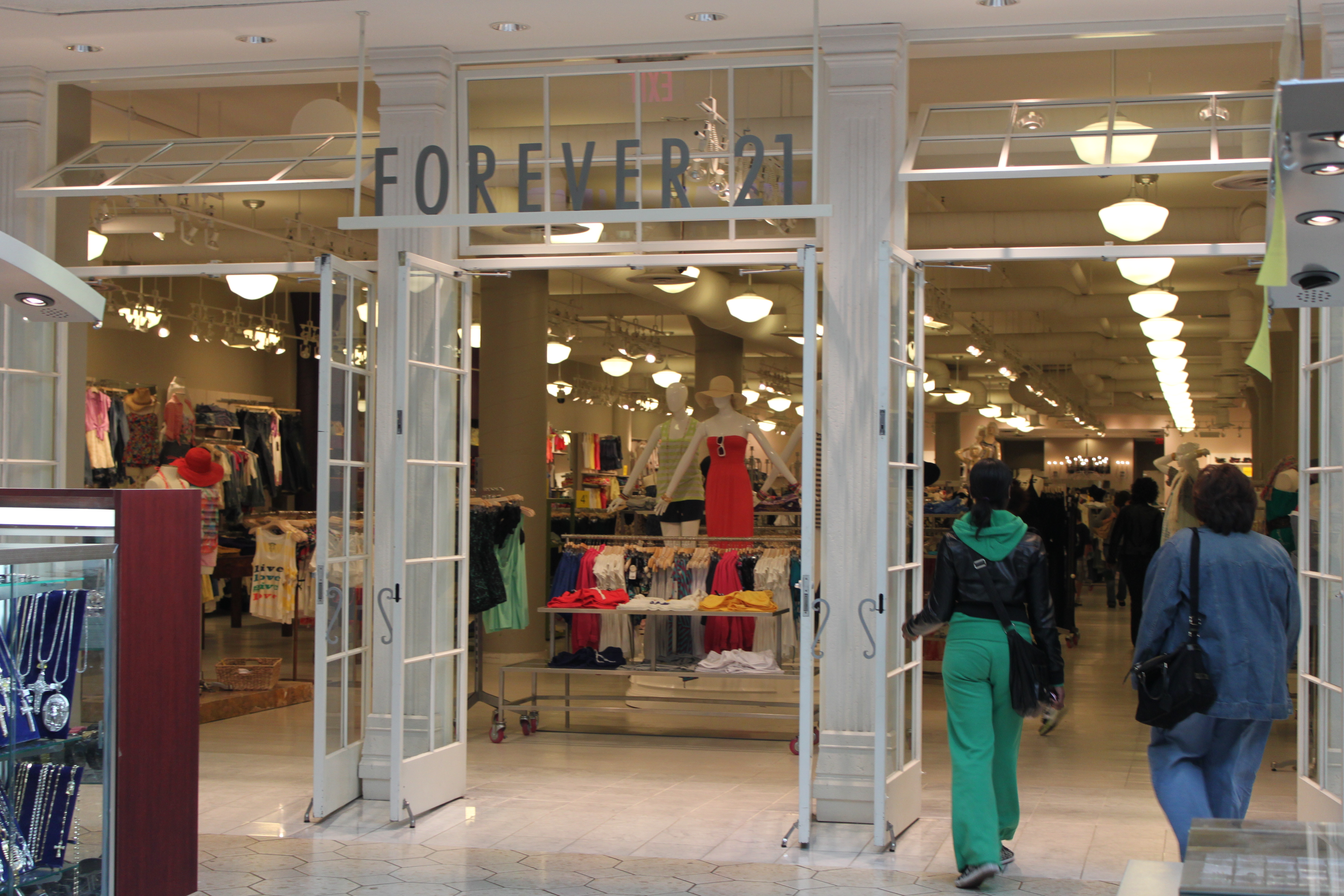 Forever 21 store, Briarwood Mall, Ann Arbor, MI